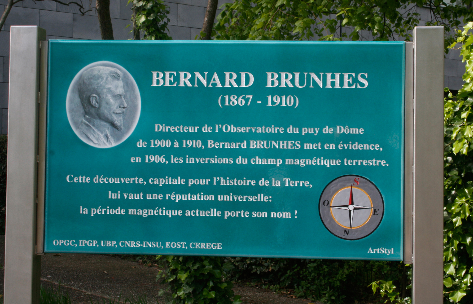 Plaque commemorating the centenary of the discovery by Bernard Brunhes of geomagnetic field reversals. This enamelled-lava plate is arranged at the entrance of the Observatoire de physique du globe de Clermont-Ferrand (OPGC), France.